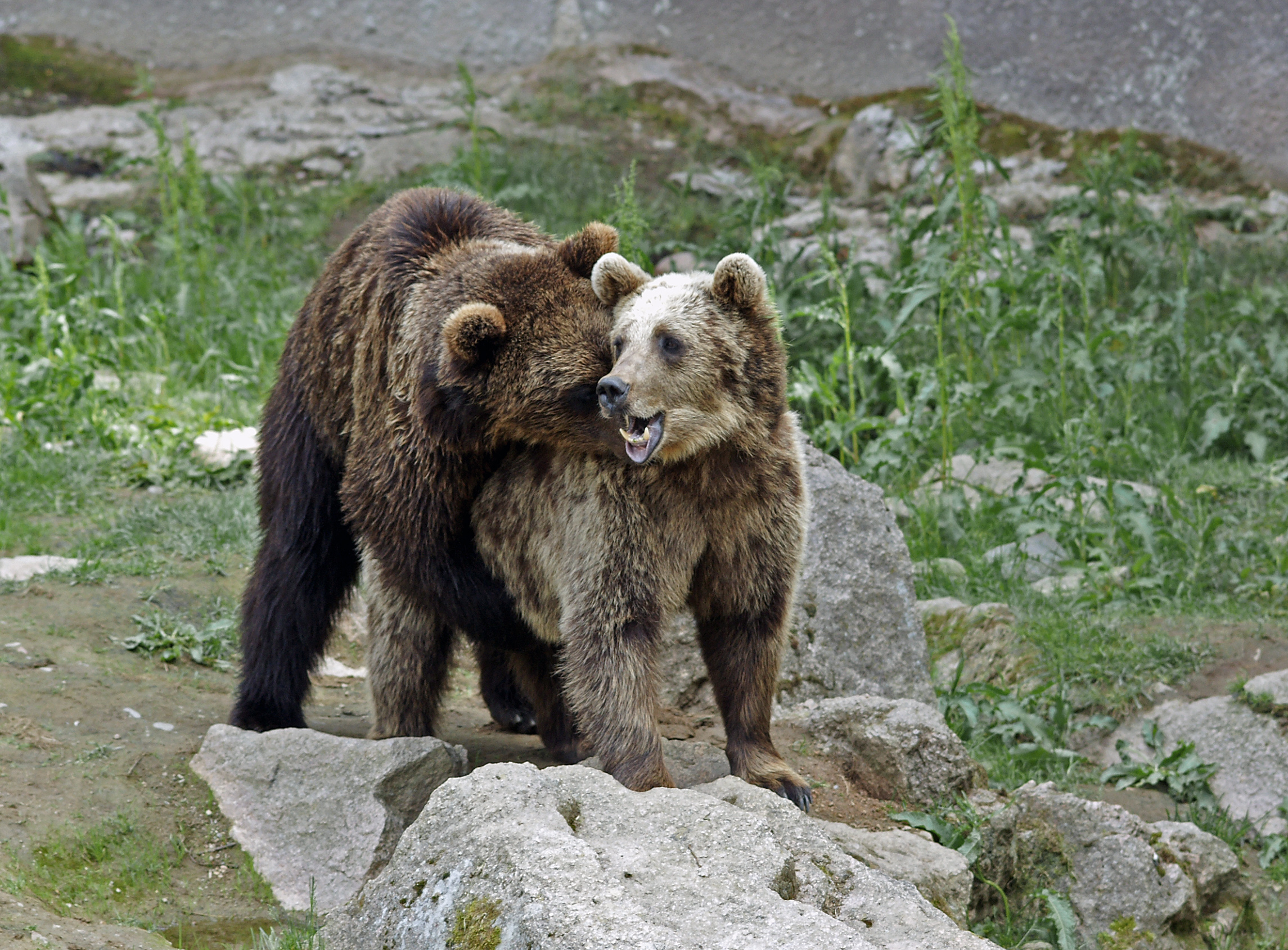 Brown bears (Ursus arctos) mating in Ähtäri Zoo.